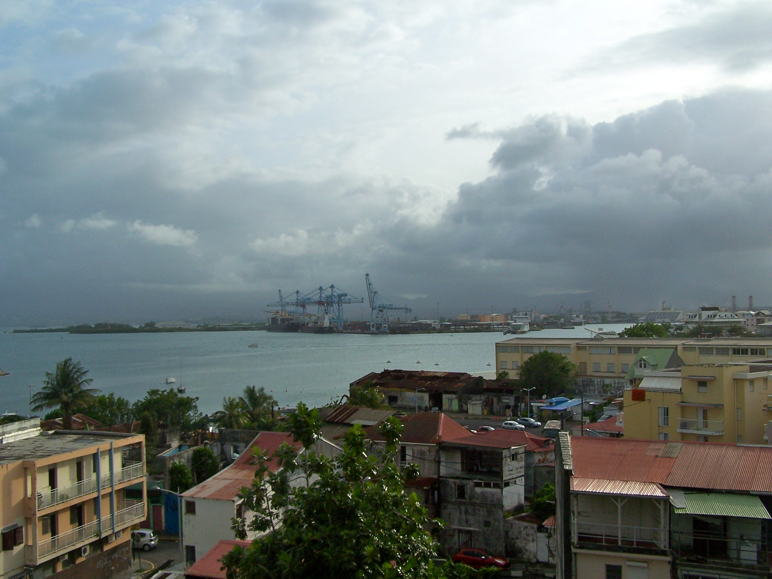 General view of the port of Pointe-à-Pitre, Guadeloupe